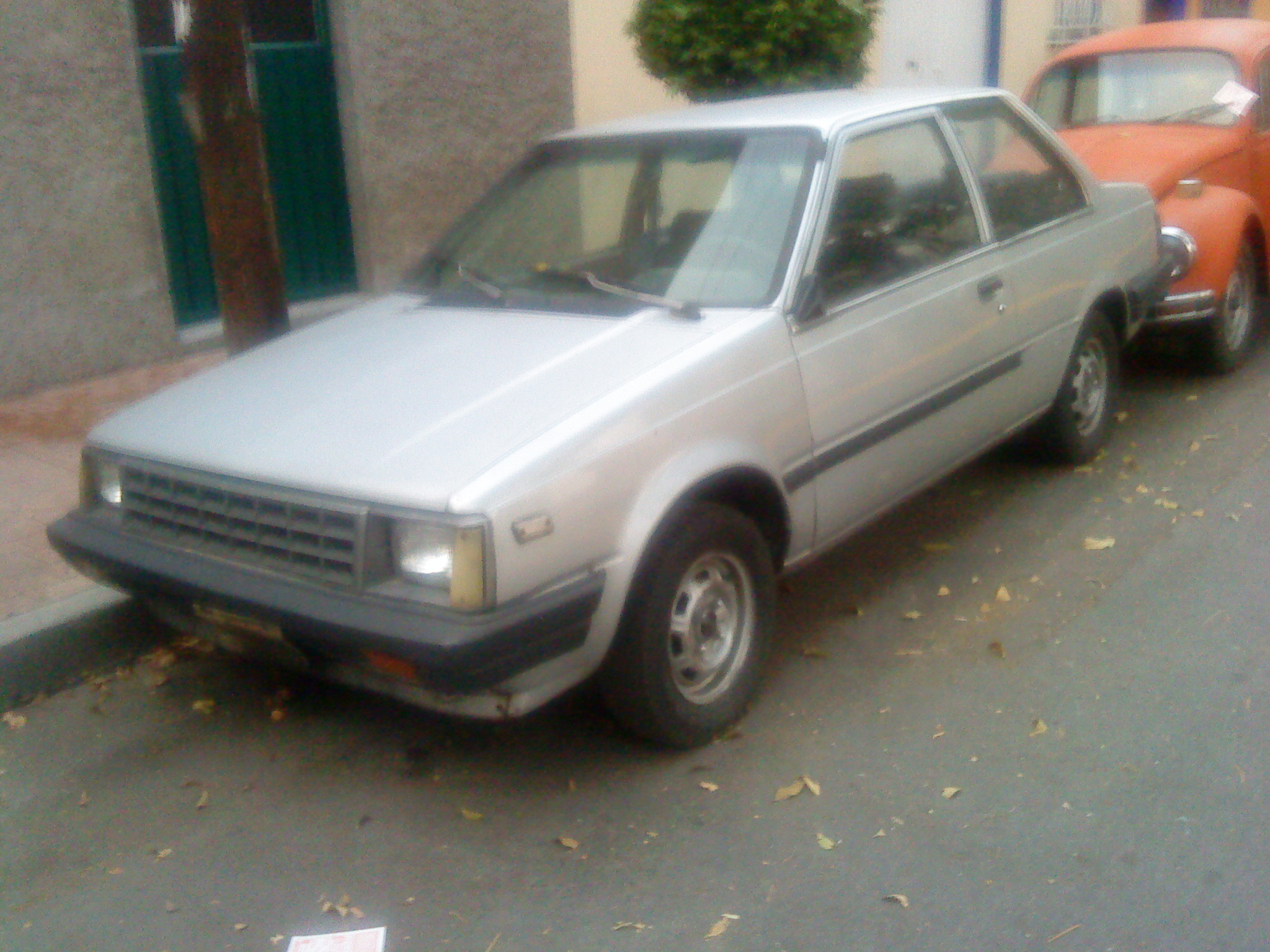 A 1986 2 door Nissan Tsuru in Mexico City